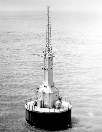 Gravelly Shoal Light U.S. Coast Guard Historic Light Station Information & Photography